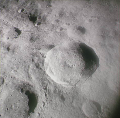 Crookes lunar crater - Apollo 8 image as08-13-2245